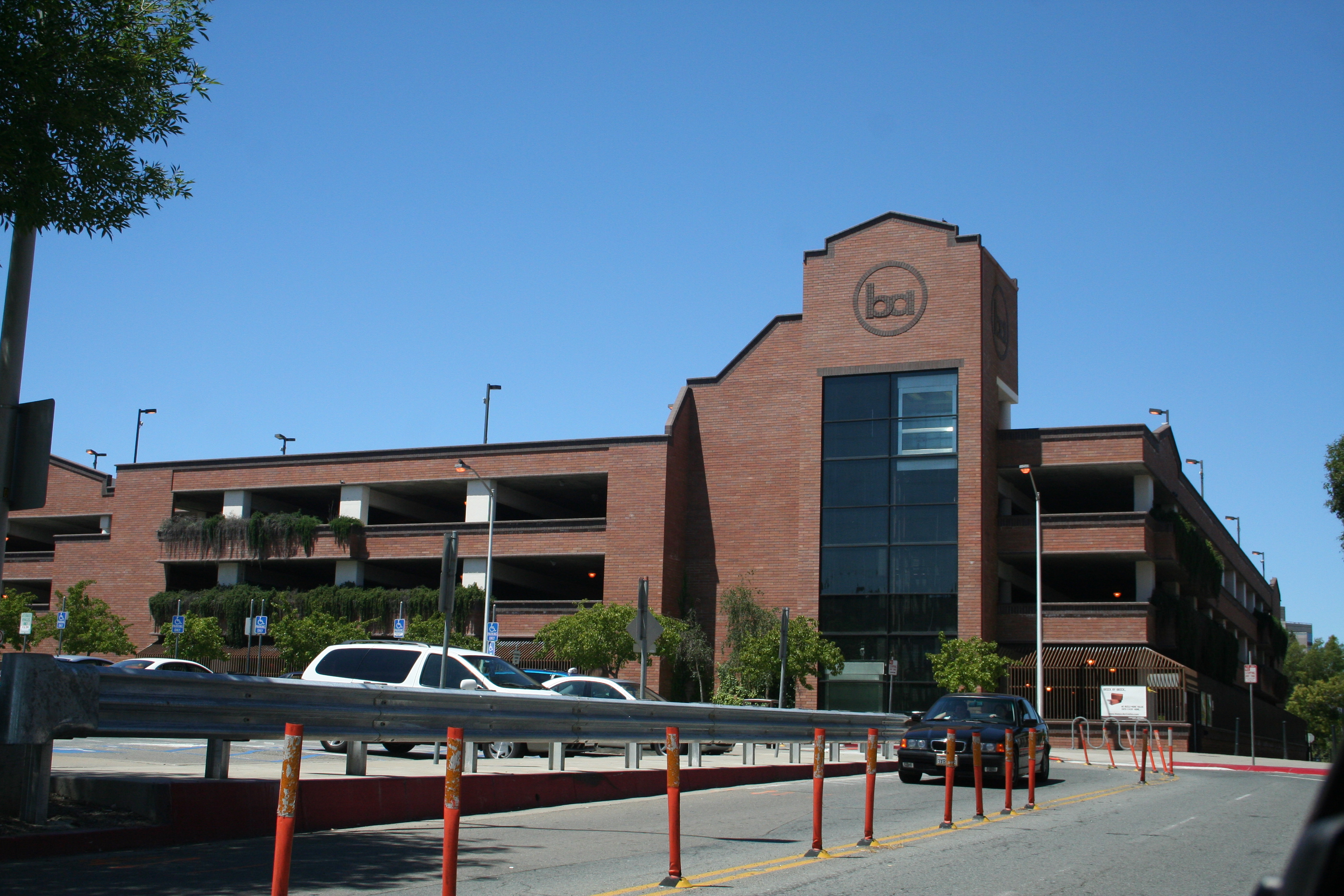 Walnut Creek, California BART Station